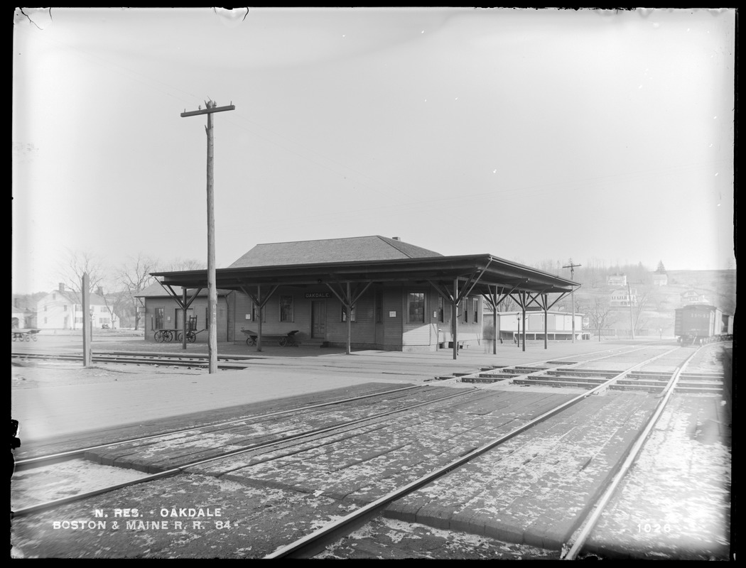 Boston & Maine Railroad's passenger station from the west near coal shed, Oakdale, MA, Jan. 13, 1897